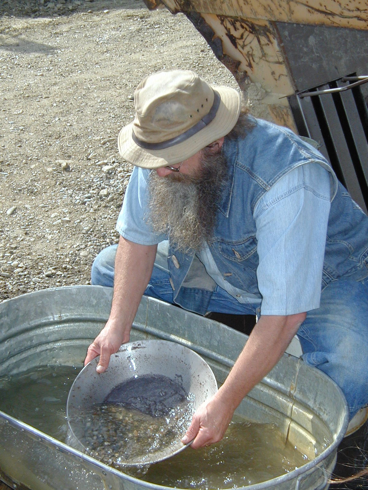 RV 2002 Stop in Fairbanks